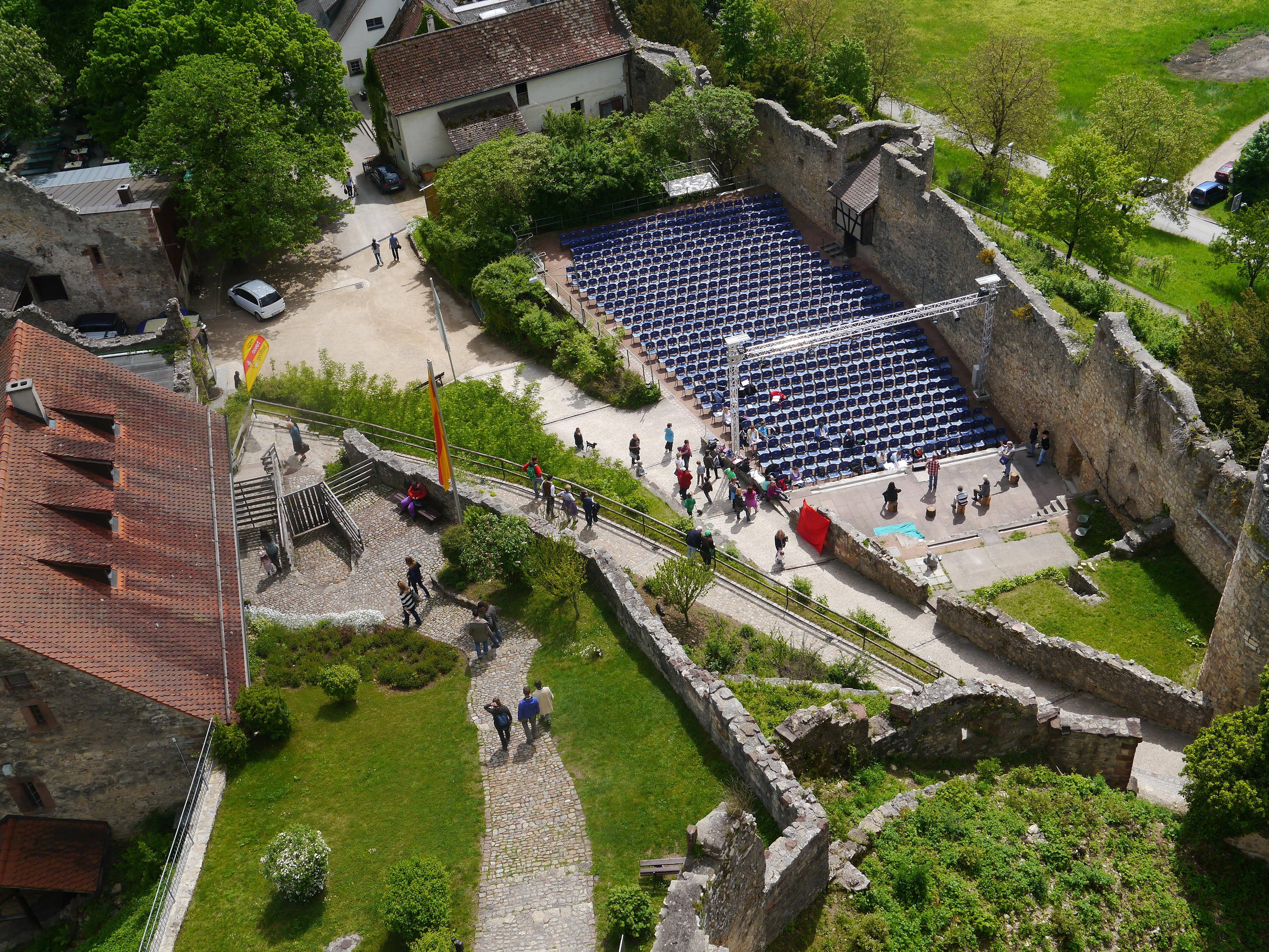 Rötteln Castle Ruines, Lörrach